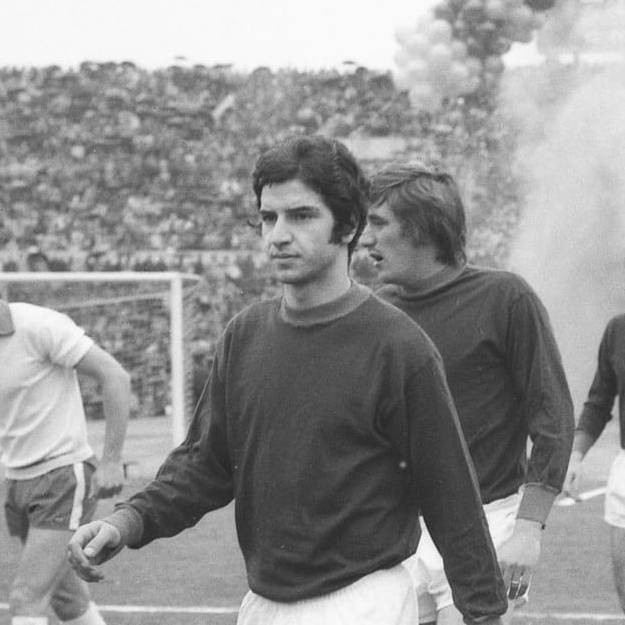 Rome, Olympic Stadium, March 14, 1971. Footballers took to the field for the Rome Derby, A.S. Roma — S.S. Lazio 2-2, Matchday 21 of the Italian Championship 1970–71 Serie A: Roma's Stefano Pellegrini.